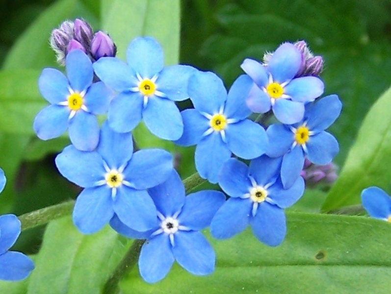 Myosotis palustris also listed as scorpiodes (pl. niezapominajka błotna)